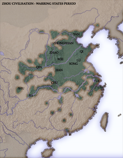 During the Warring States period competition between states became more intense. The number of the older states centrally located along the Yellow River valley declined whilst those on the periphery, such as Qin, Qi and Chu grew bigger. By 221 BC, the state of Qin had succeeded in conquering its rivals and unifying China for the first time under an imperial government.